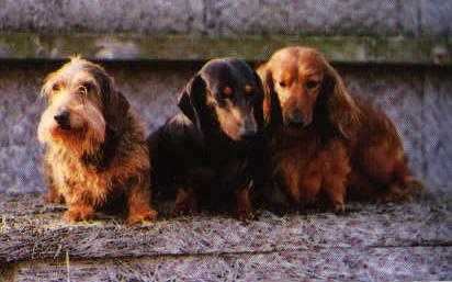 Three types of Teckels